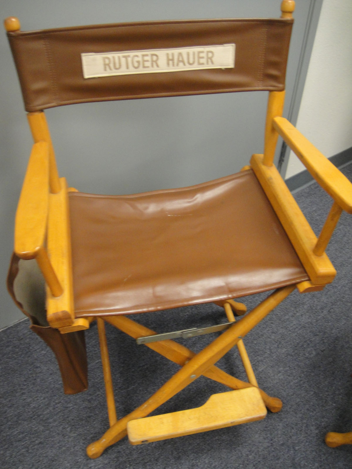 photo 2011 taken by Doug Kline If you're interested in higher resolution versions of my images, contact me via my profile page.